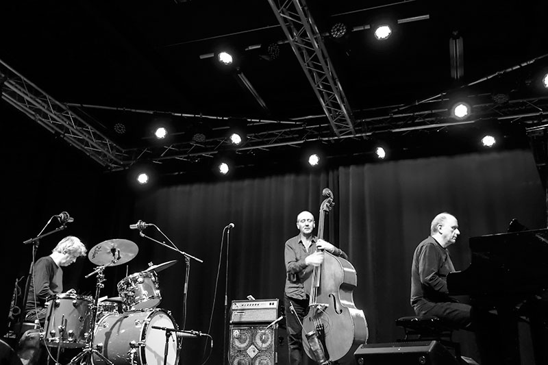 The Nicks in Aarhus Denmark (november 2015)